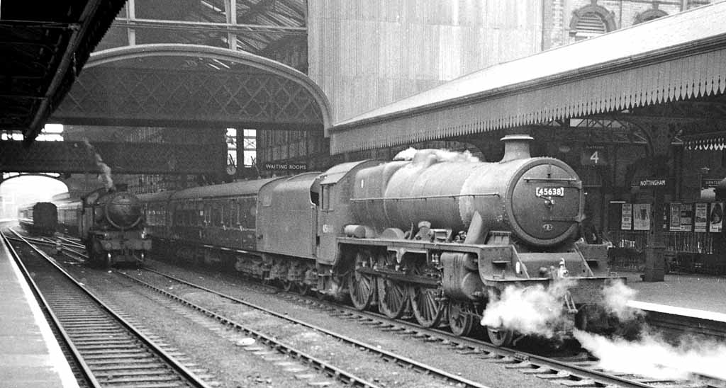 Nottingham Victoria Station, with Down express. View southward from Up Main platform 4 to Down main platform 7, where LMS 'Jubilee' 6P 4-6-0 No. 45638 'Zanzibar' is heading the 08.38 express from London Marylebone, when the London Midland Region had taken over the ex-Great Central main line for its decline, although the great station had another five years before it was obliterated. On the middle line is an LNE L1 2-6-4T.